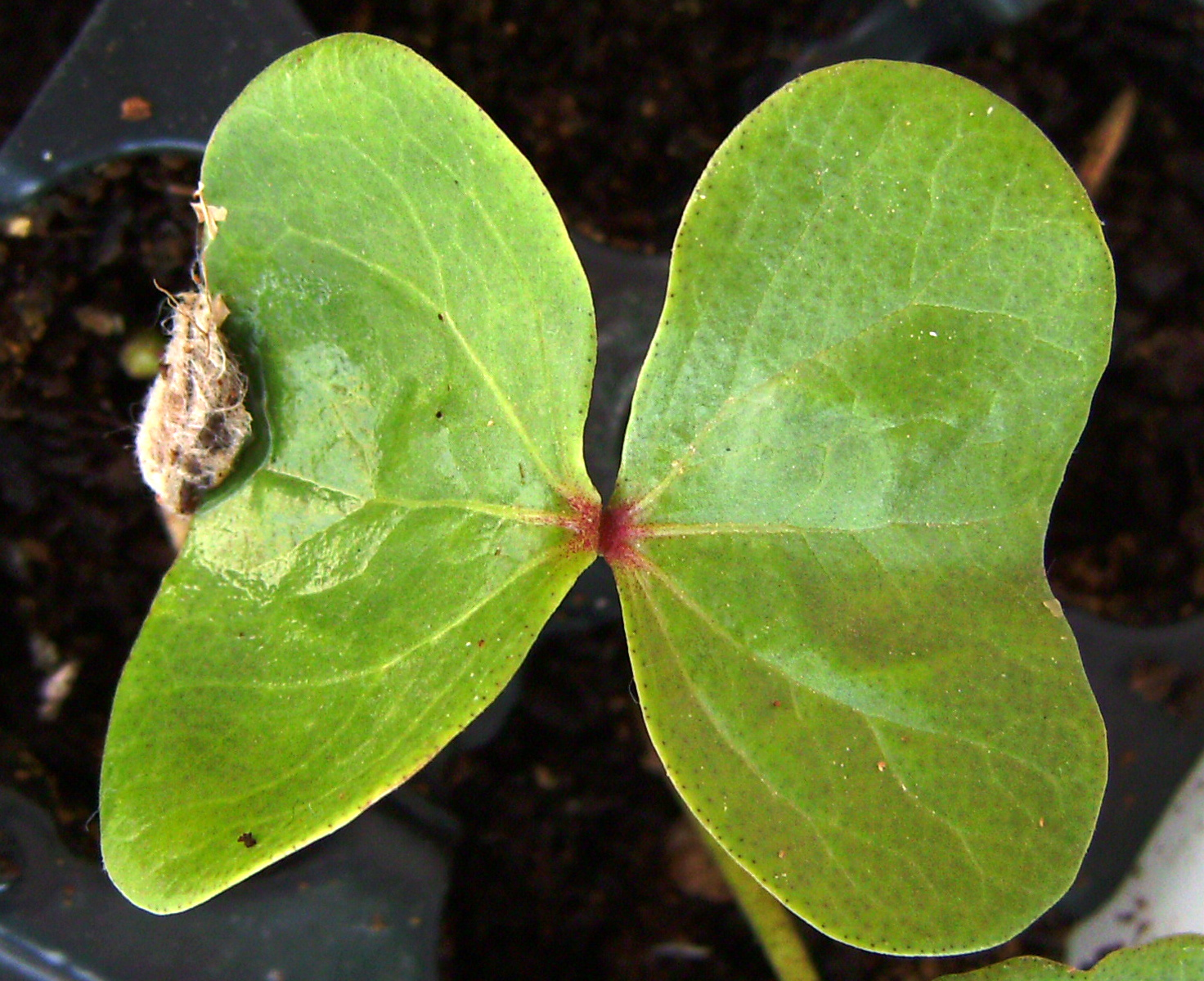 Cotyledons and the remains of a seed (at left) from Gossypium hirsutum growing in a container, Barcelona, Catalonia